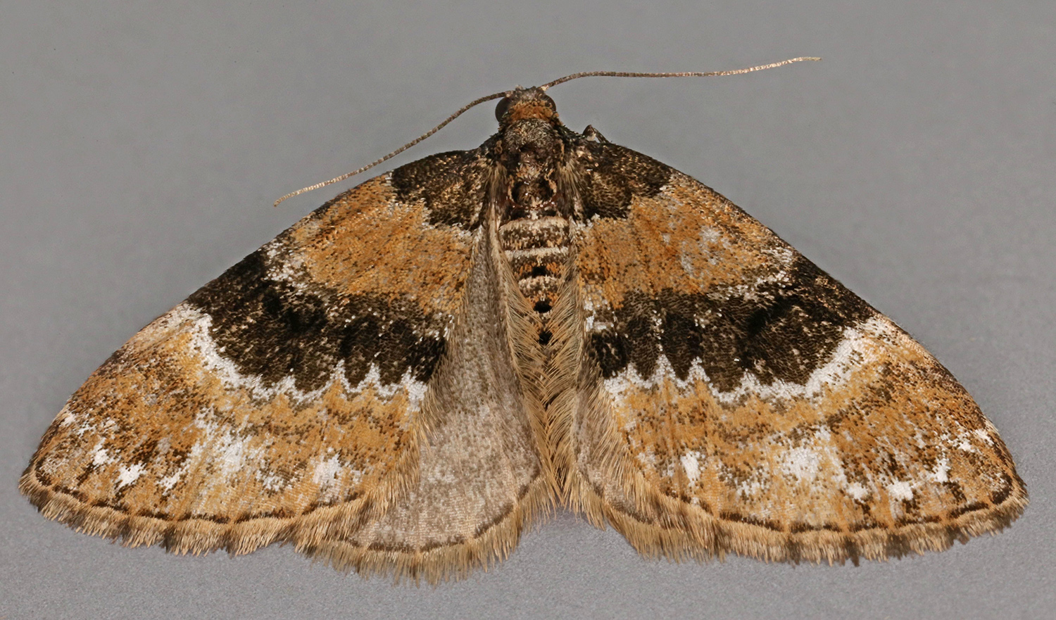 Martania taeniata, Barred Carpet, Nant-y-ffrith, North Wales, Aug 2015